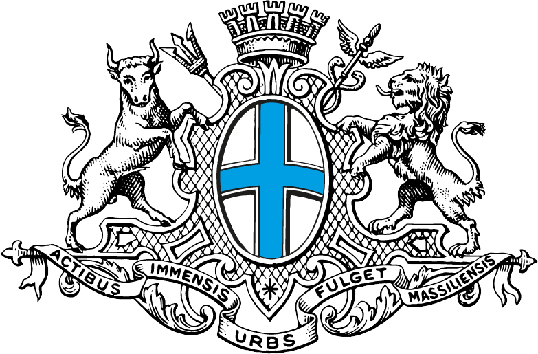 Greater coat of arms of Marseille